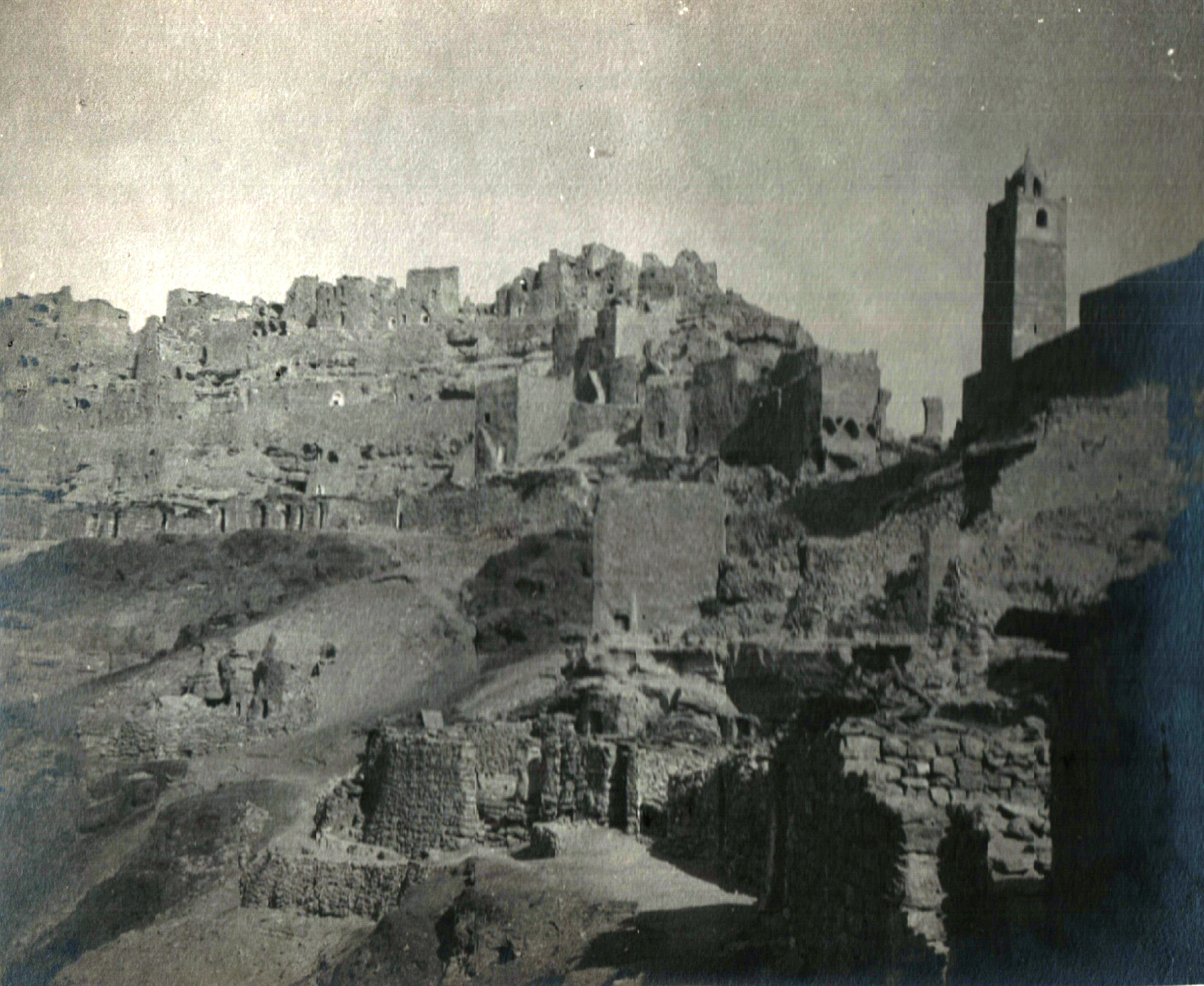 Photos of Sahara desert and other regions of Africa. Inhabitants of rocks at Chenini, Tunisia.